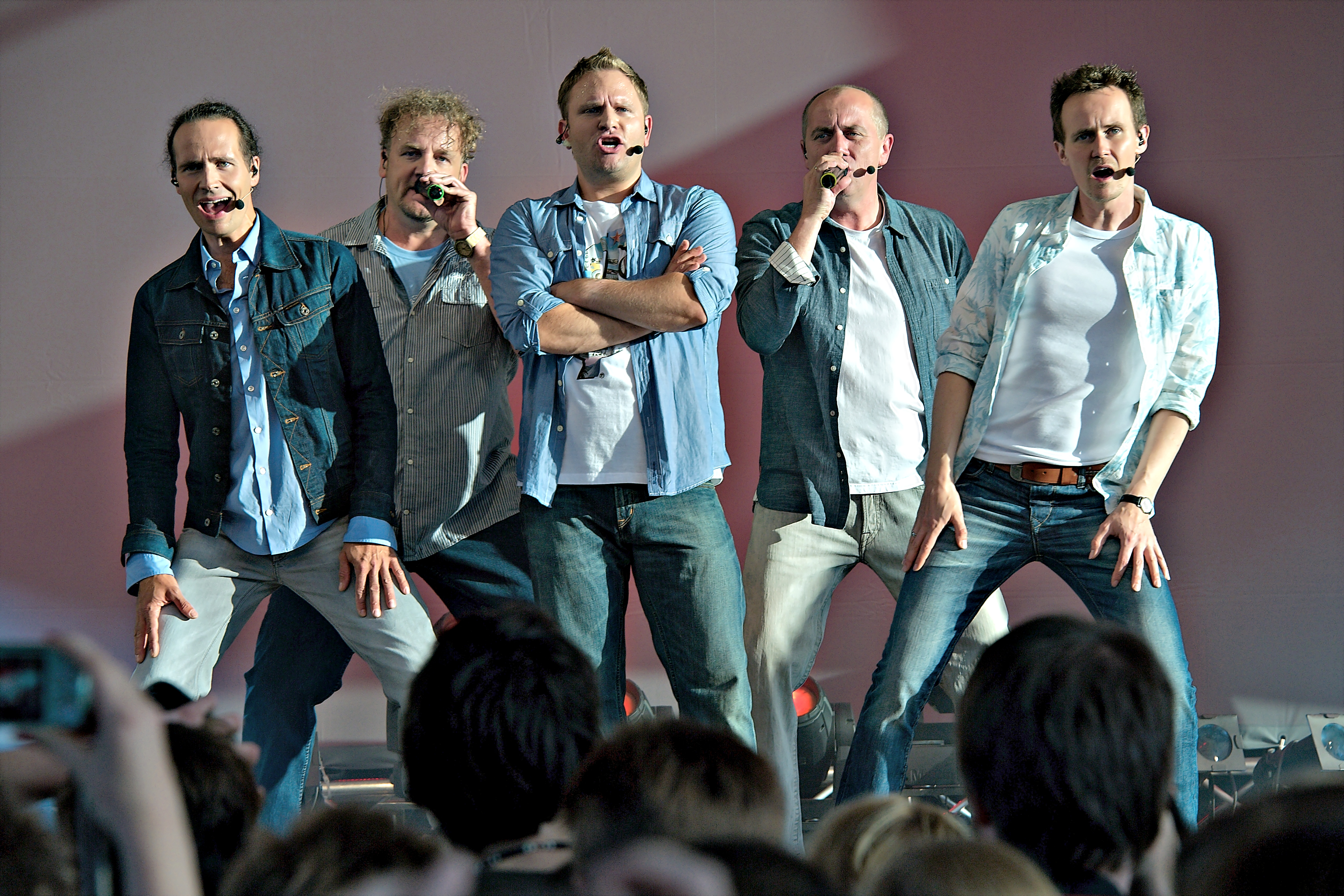 The German a cappella group “Wise Guys” performing during the "Tanzbrunnen 2011" open-air concert in Cologne, Germany. From left to right: Edzard Hüneke (“Eddi”), Daniel Dickopf (“Dän”), Nils Olfert, Ferenc Husta and Marc Sahr (“Sari”).